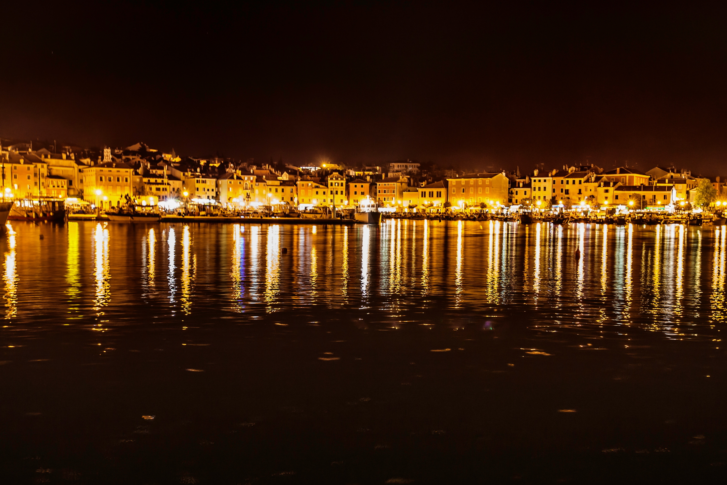 Night reflection cityscape of Rovinj.